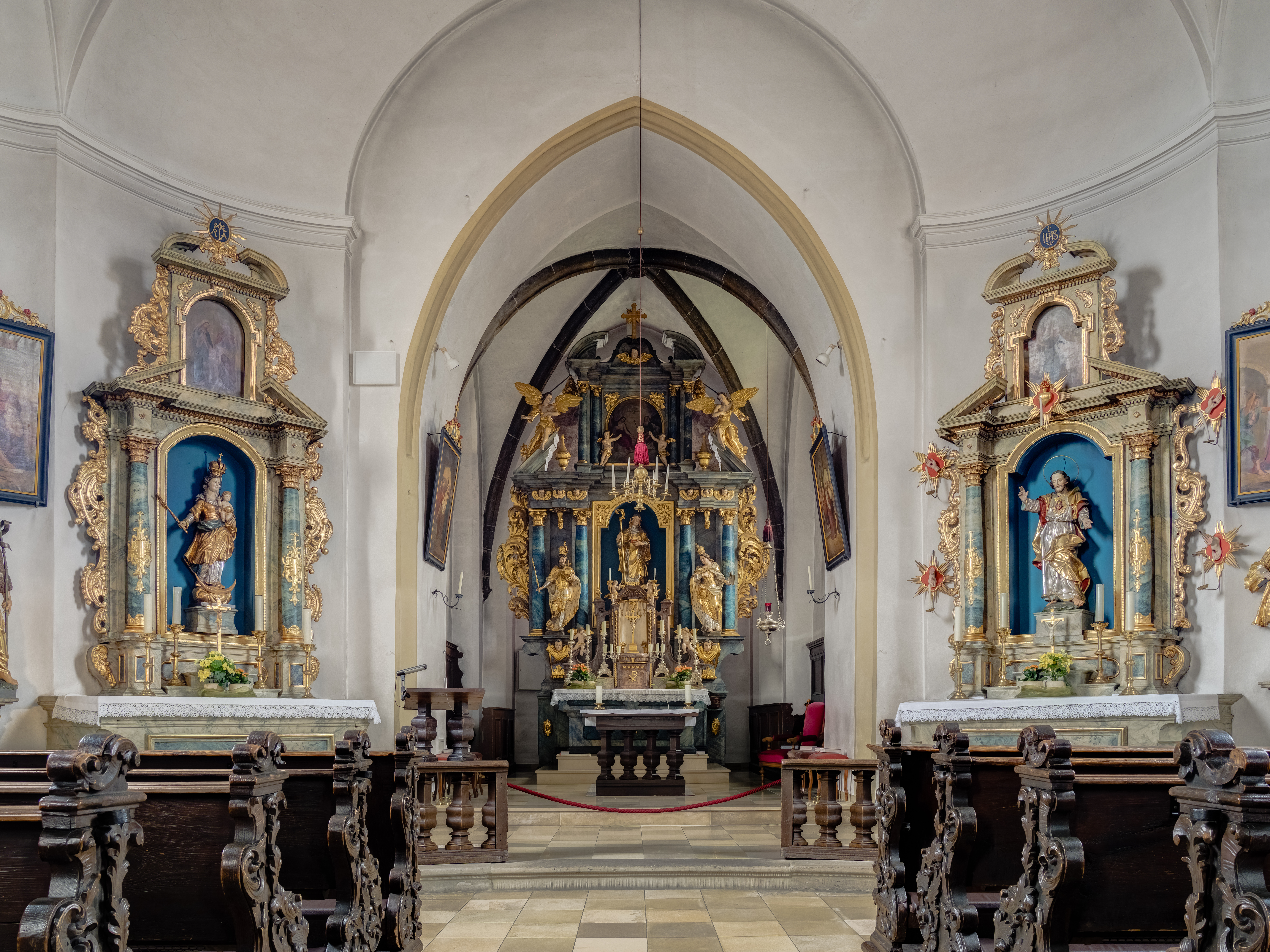 Chancel of the catholic parish church St. Johannes Baptist and St. Ottilie in Kersbach near Forchheim